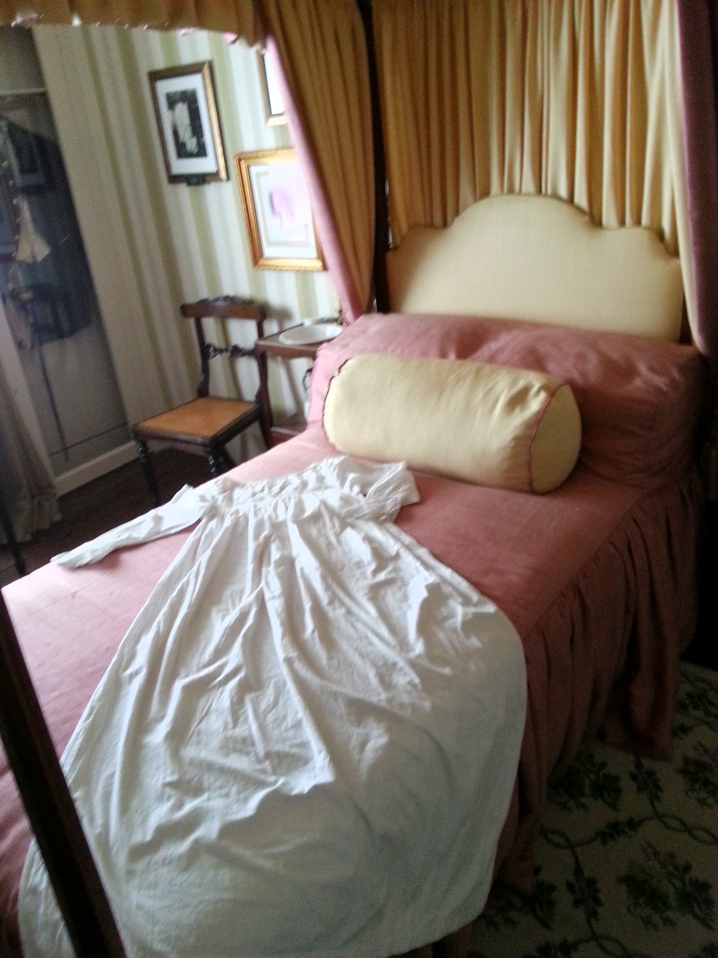 Dickens Museum -- bedroom 25, the bedroom of Mary Hogarth